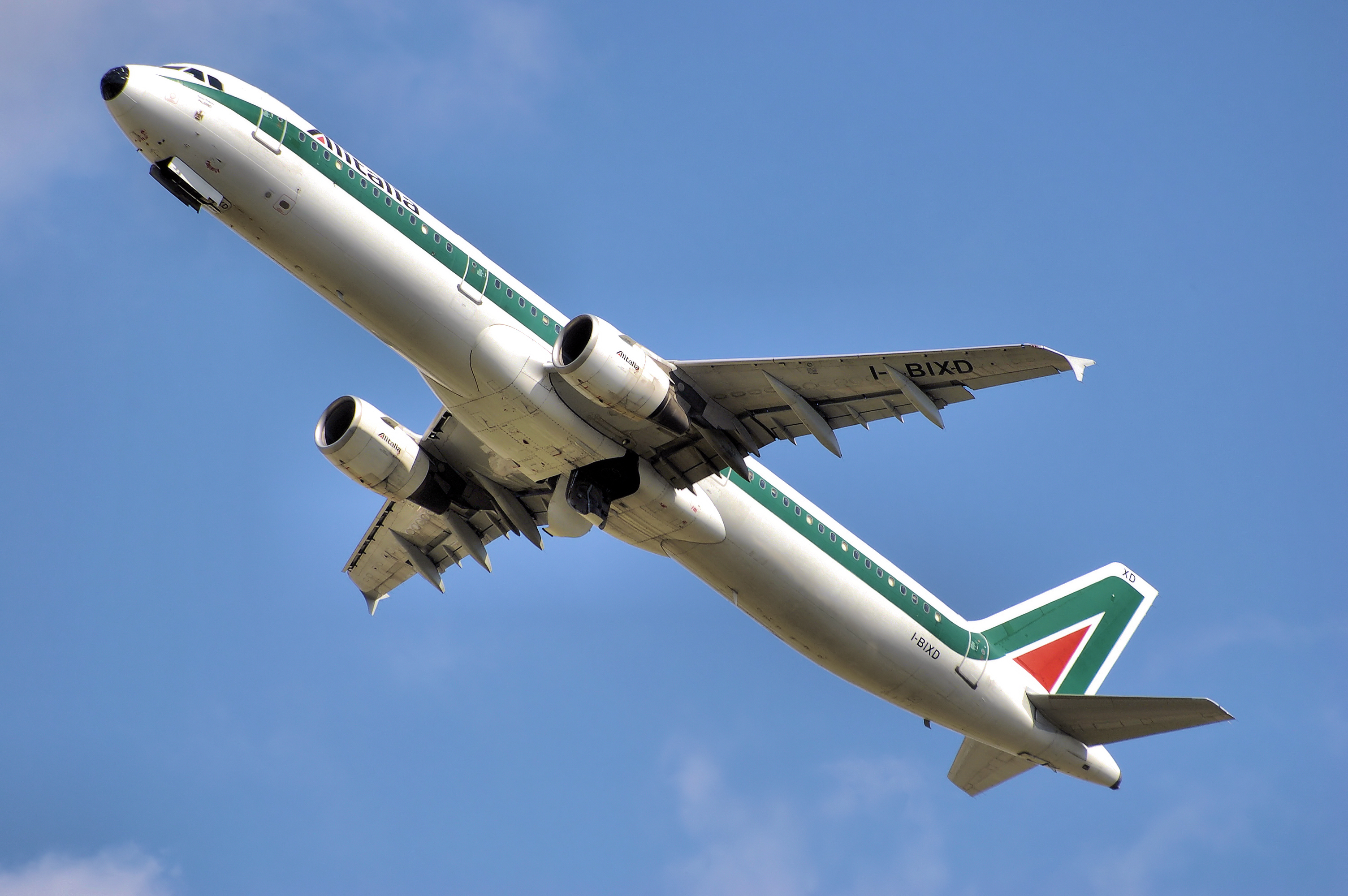 Alitalia Airbus A321-100 (I-BIXD) taking off from London Heathrow Airport, England. The undercarriage doors are still closing.